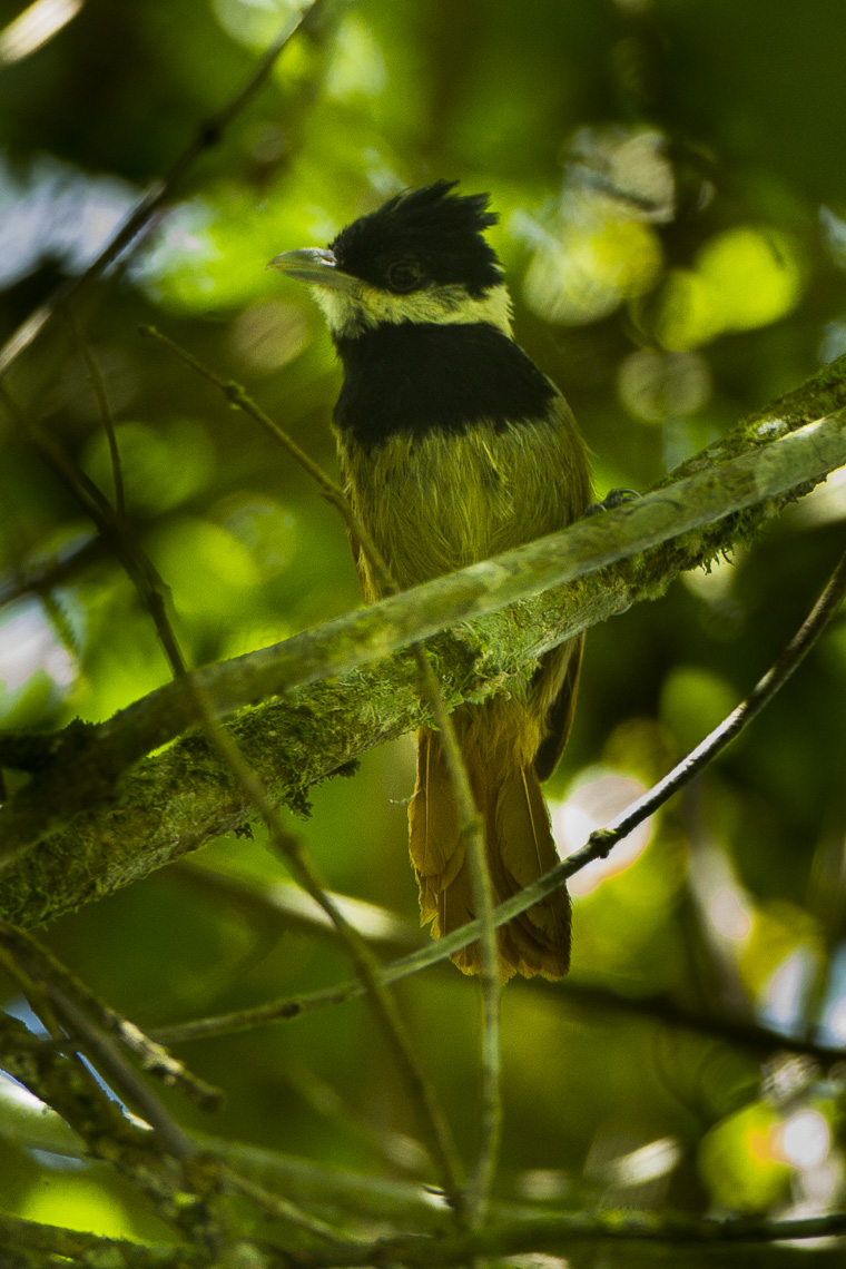 White-bearded Antshrike - Intervales - Brazil_S4E9828